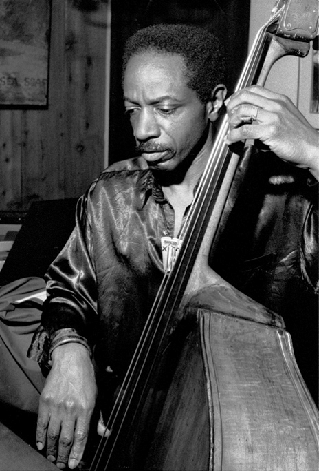 Reggie Workman at Bach Dancing & Dynamite Society, Half Moon Bay CA 1989.